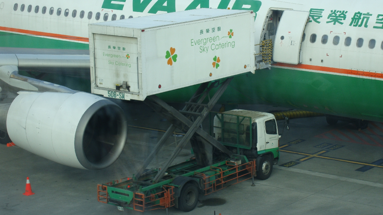 Airbus A330 plane of EVA Air are in the supply of sky kitchen supplies by Hino truck 508-SM of Evergreen Sky Catering Corporation.